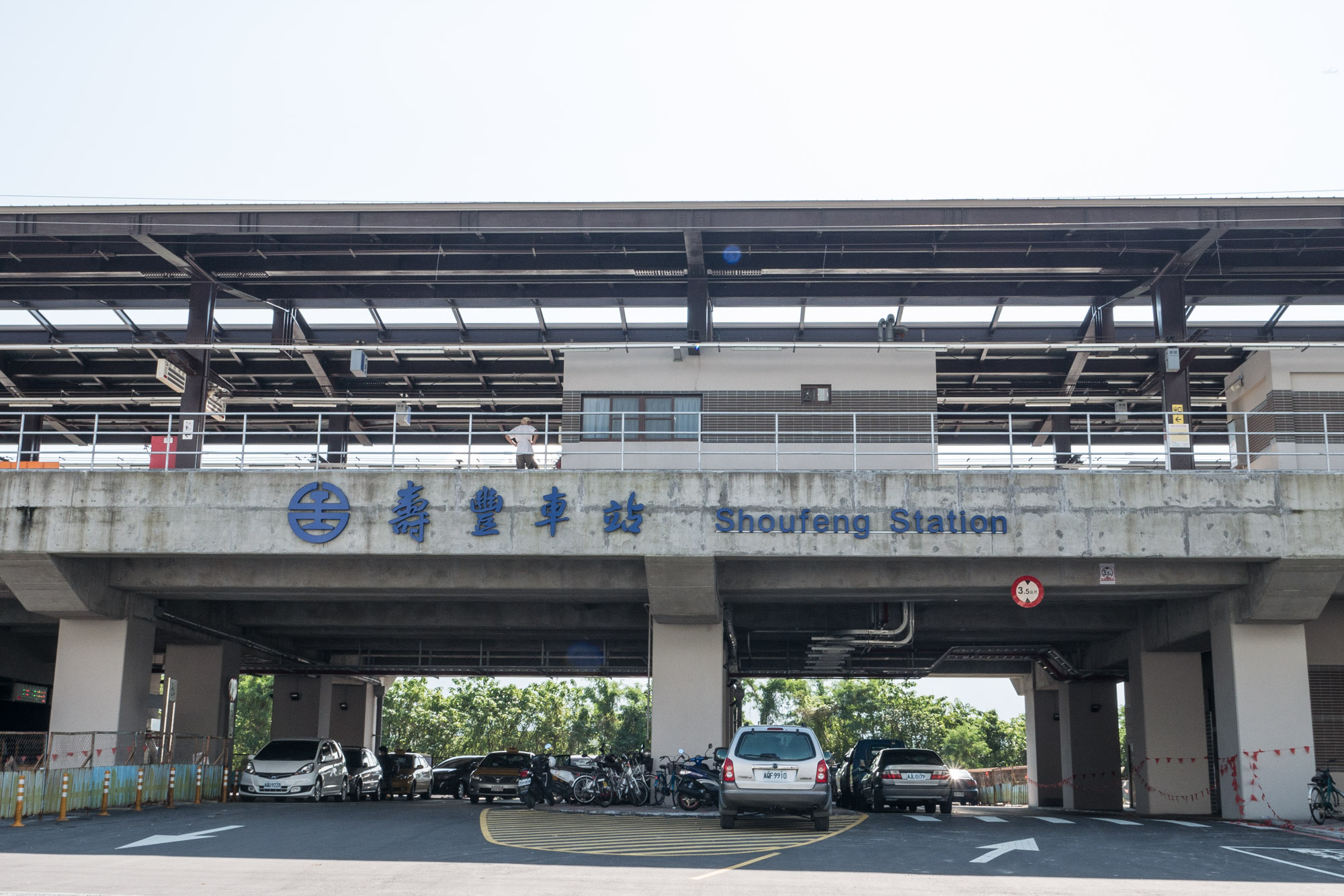 Shoufeng Station, Taiwan Railways Administration.